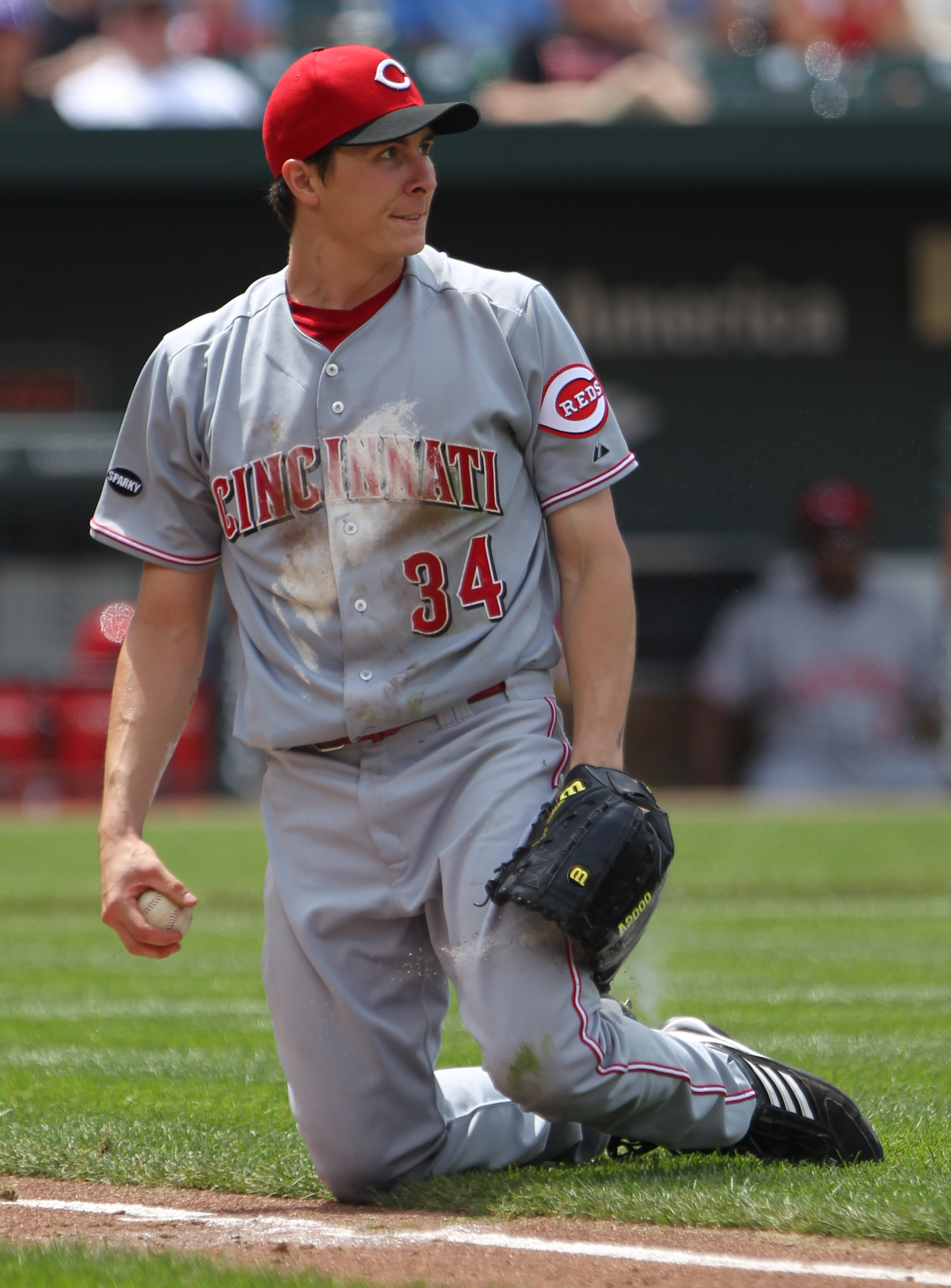 Reds at Orioles June 26, 2011.